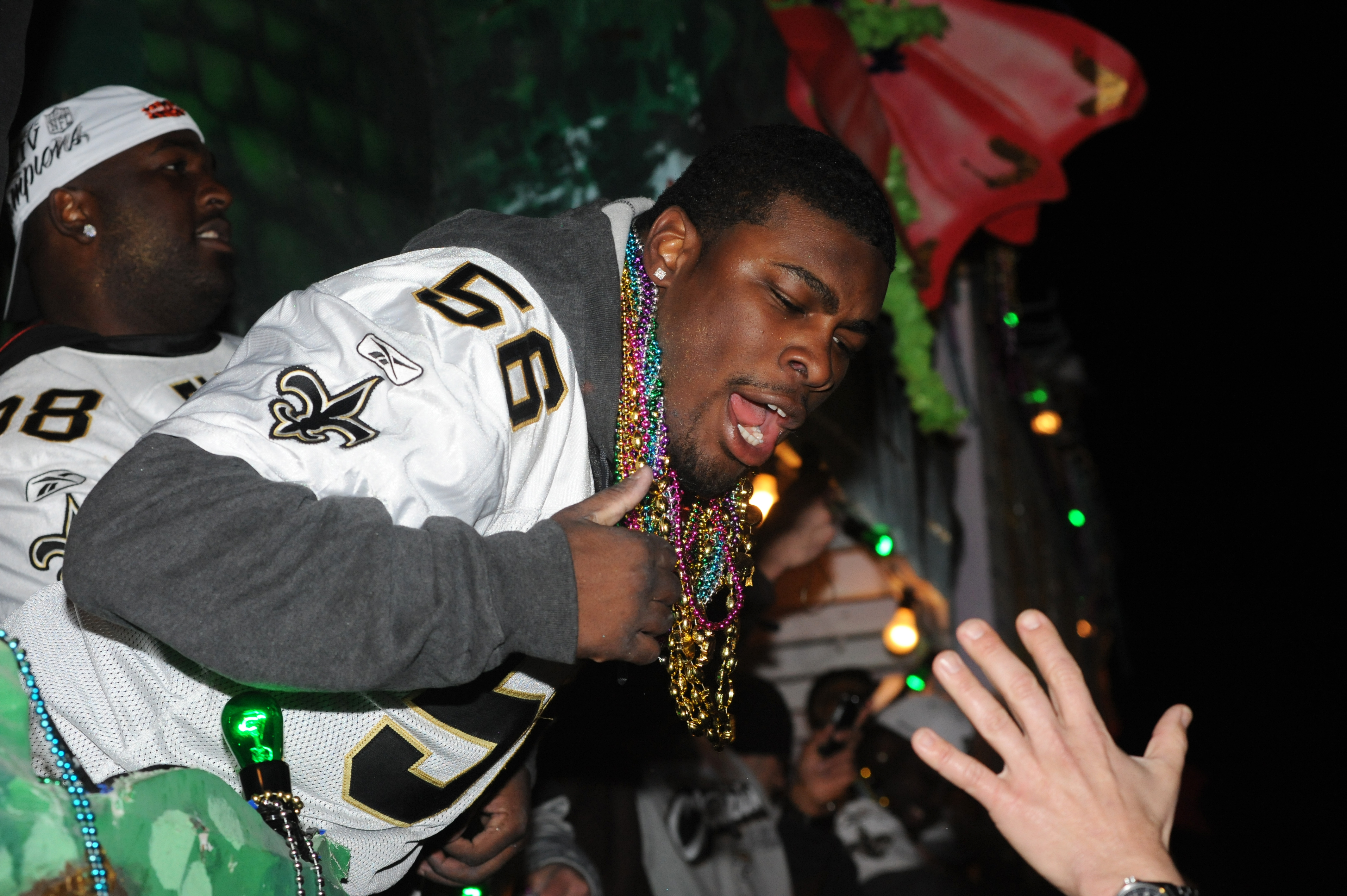 February 9, 2010